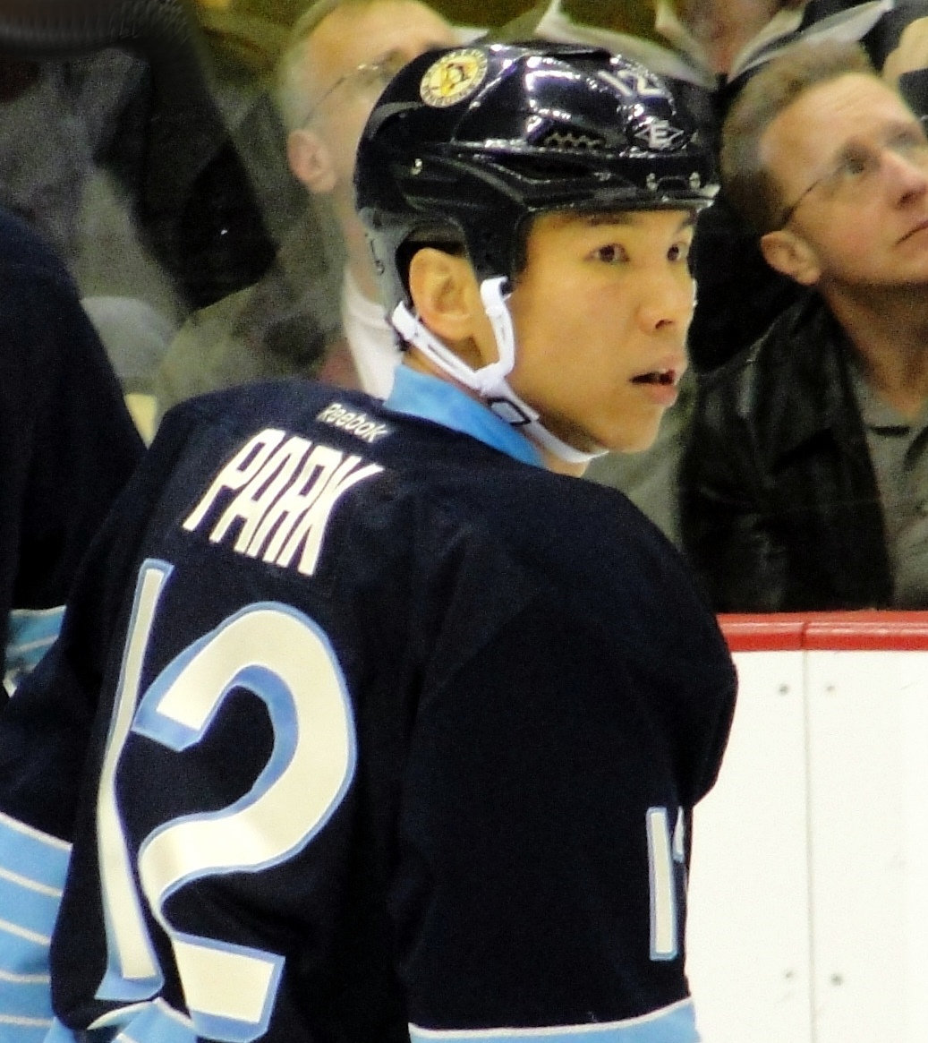 Richard Park of the Pittsburgh Penguins during a game against the Montreal Canadiens January 20, 2012 at Consol Energy Center in Pittsburgh, PA.